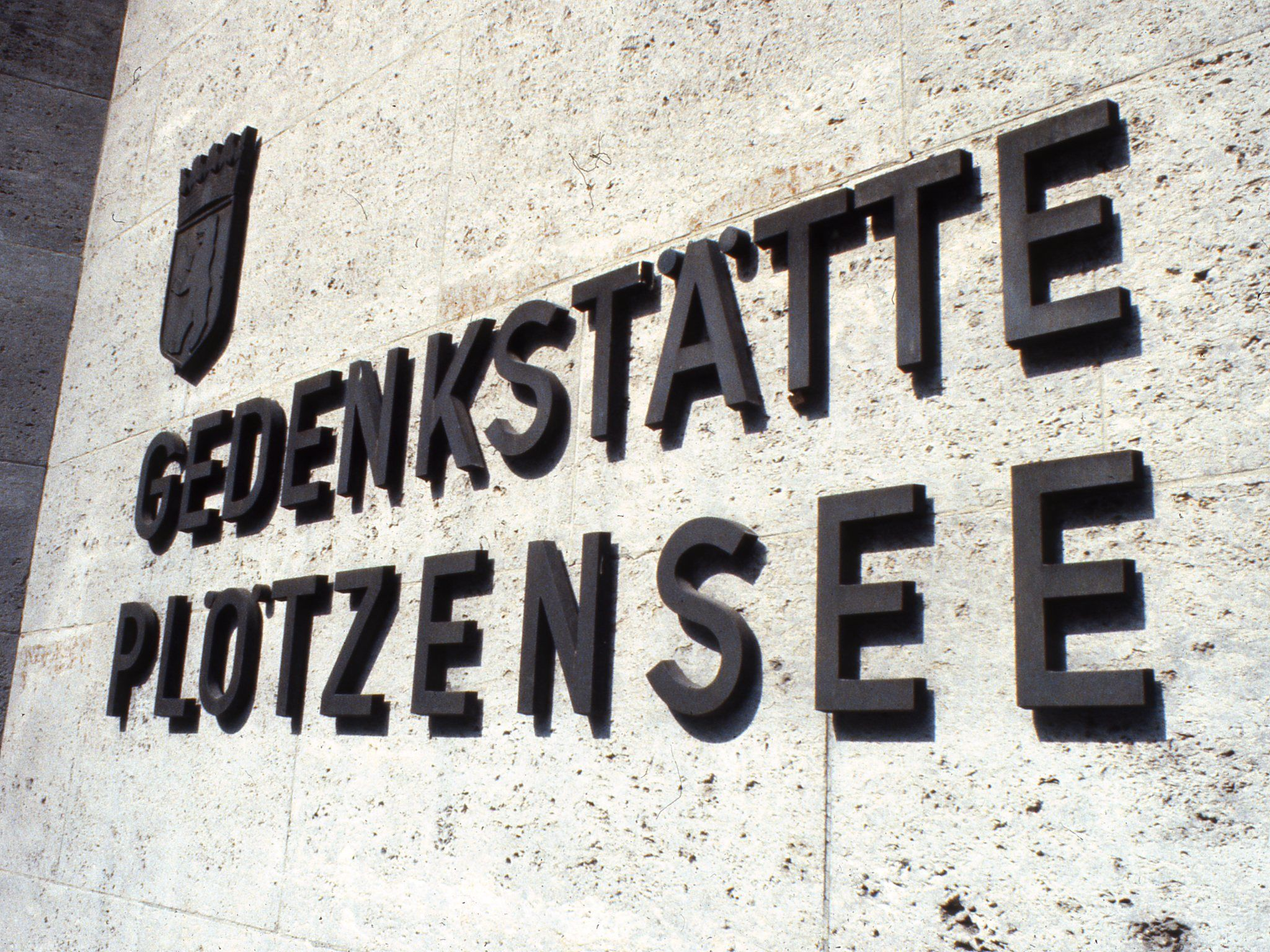 Exterior sign at Plotzensee Memorial, 1984 Other information Photo by George Garrigues